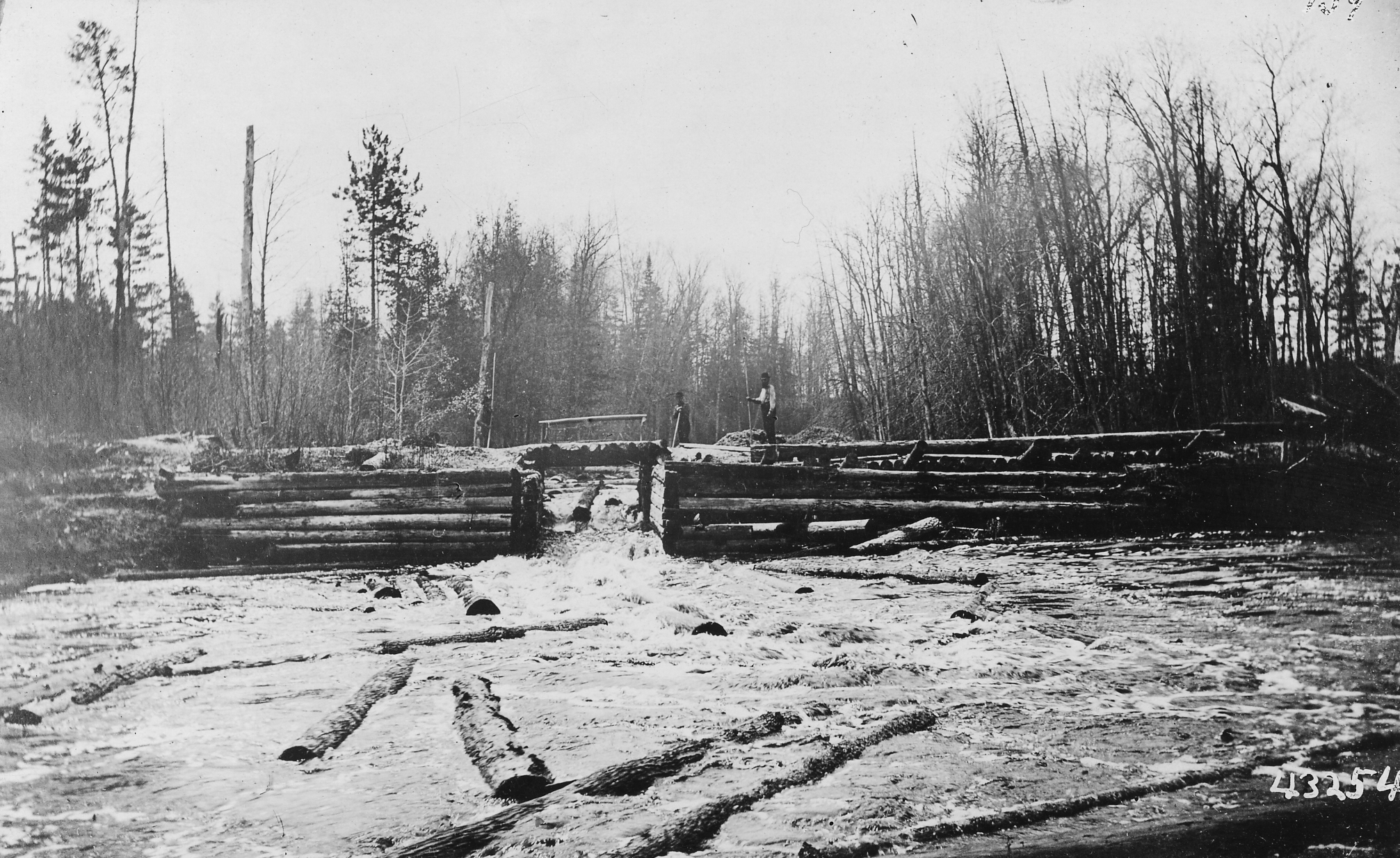 Scope and content: Original caption: Dam for making freshet for floating logs. Northern Michigan. ~1910.